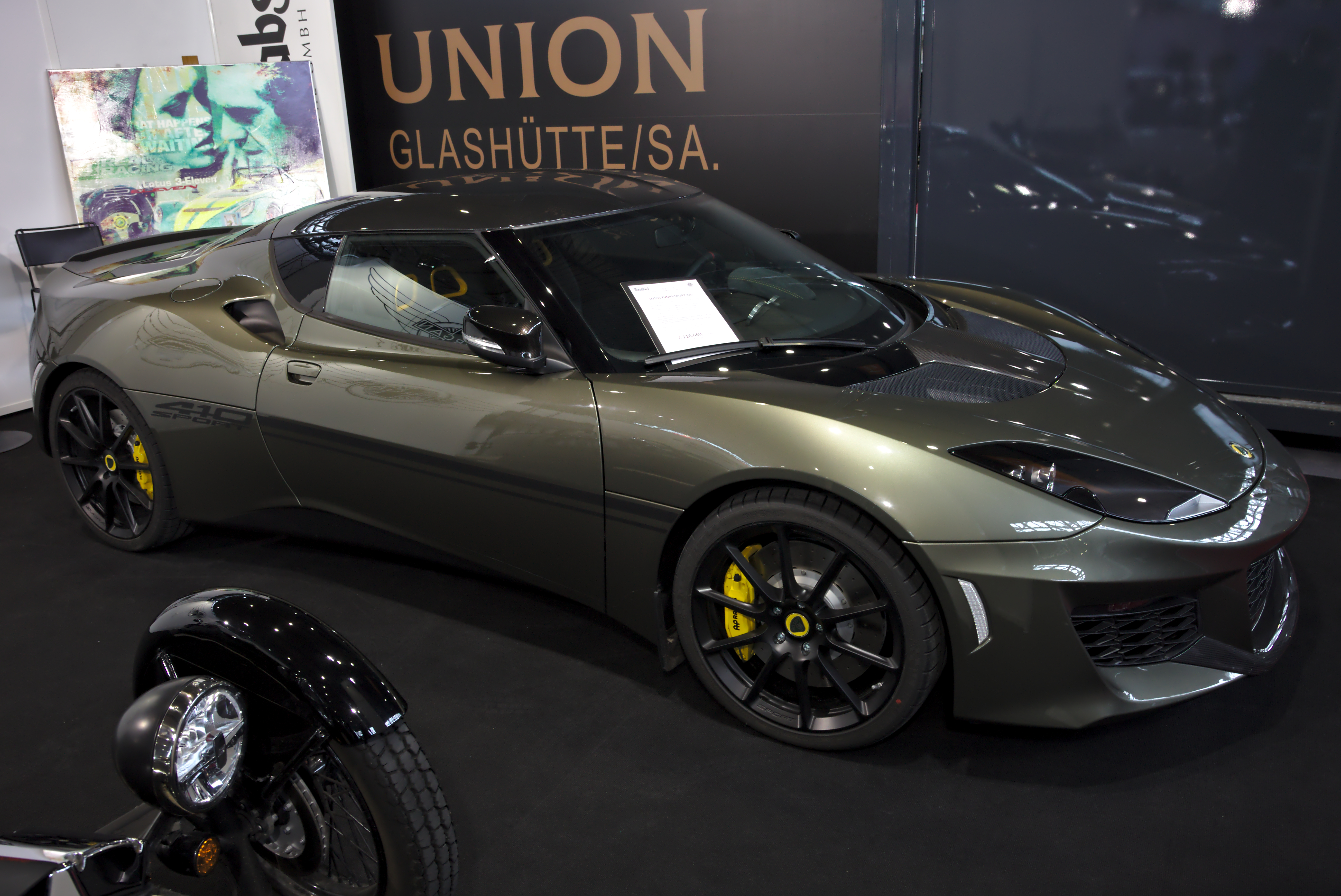 Lotus Evora Sport 410 at Retro Classics 2018